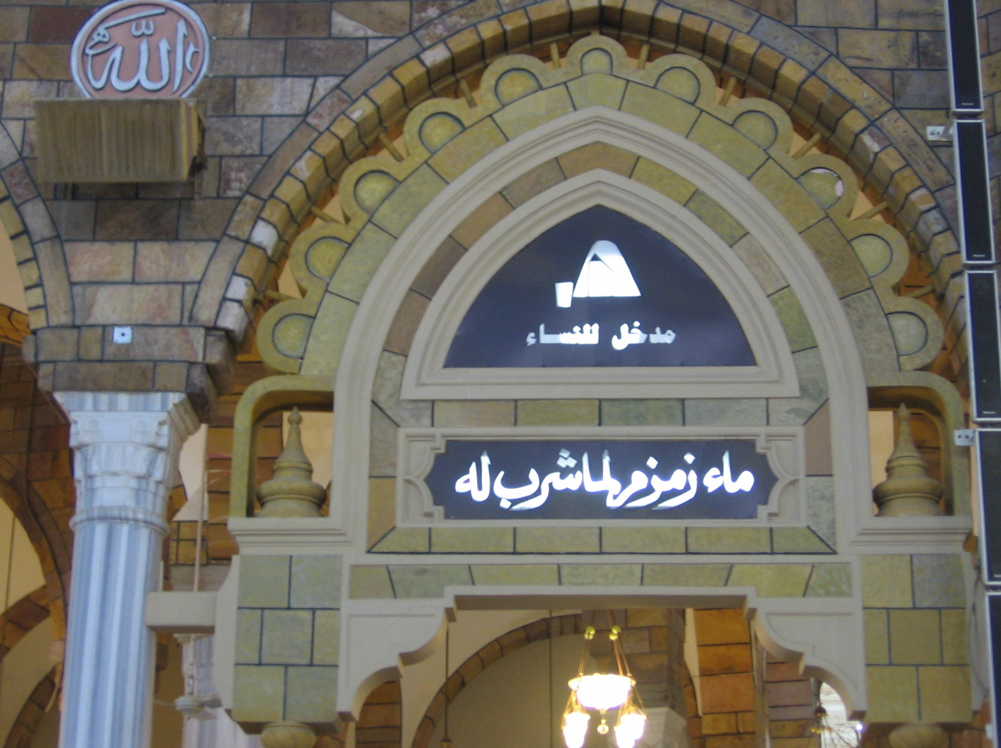 Zamzam Well in mecca Saudi Arabia